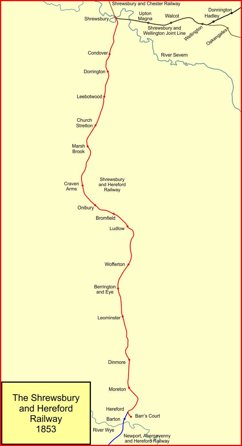 Diagram of the Shrewsbury and Hereford Railway, England, in 1853